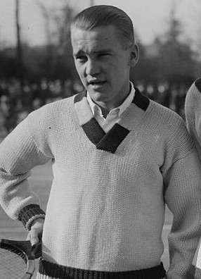 TITLE: Richards - Tilden - Johnston, (tennis) CALL NUMBER: LC-B2- 5987-7[P&P] REPRODUCTION NUMBER: LC-DIG-ggbain-35883 (digital file from original negative) RIGHTS INFORMATION: No known restrictions on publication. MEDIUM: 1 negative : glass ; 5 x 7 in. or smaller. CREATED/PUBLISHED: [no date recorded on caption card] CREATOR: Bain News Service, publisher. NOTES: Title from unverified data provided by the Bain News Service on the negatives or caption cards. Forms part of: George Grantham Bain Collection (Library of Congress). General information about the Bain Collection is available at Temp. note: Batch eight loaded. FORMAT: Glass negatives. REPOSITORY: Library of Congress Prints and Photographs Division Washington, D.C. 20540 USA DIGITAL ID: (digital file from original neg.) ggbain 35883 CONTROL #: ggb2006011296